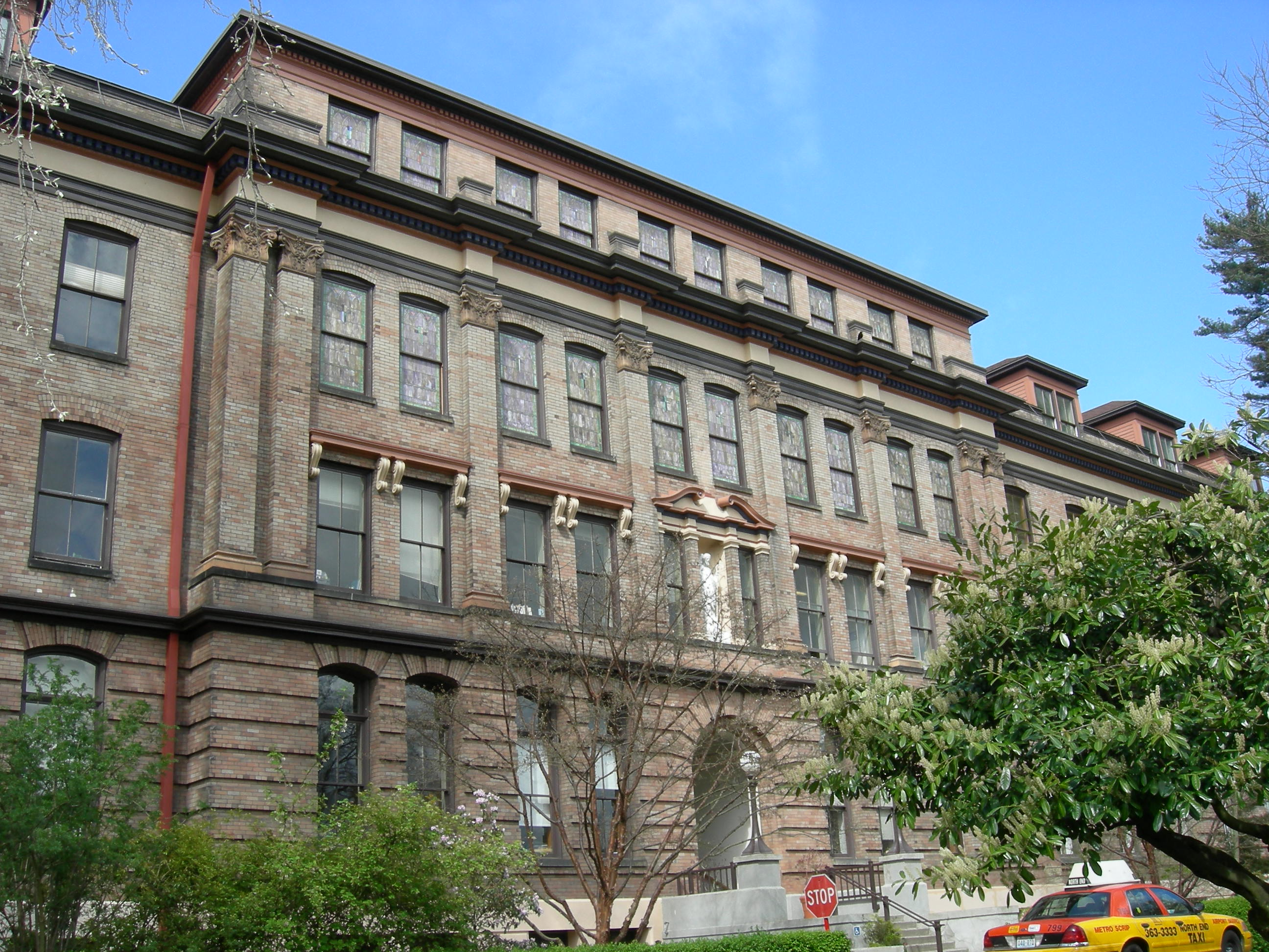 Good Shepherd Center, Wallingford, Seattle, Washington. The building is listed as an official city landmark and is also on the National Register of Historic Places.